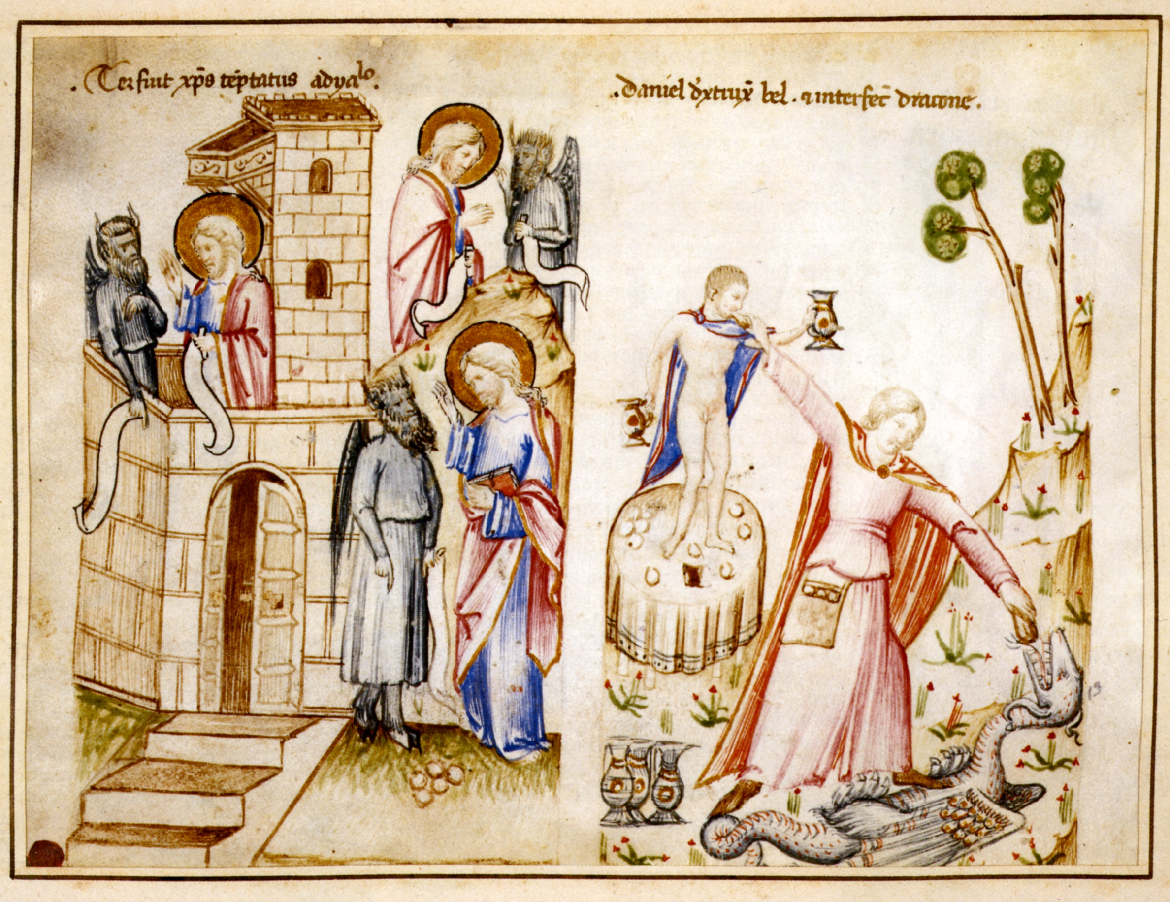 Christ's Temptation (left) and Daniel destroying Bel (right), Speculum Humanae Salvationis, late 14th century, Italy, perhaps Tuscany, Fitzwilliam Museum, MS 43-1950, fol. 5v References: Binski P., Panayotova S.: The Cambridge Illuminations, No. 36